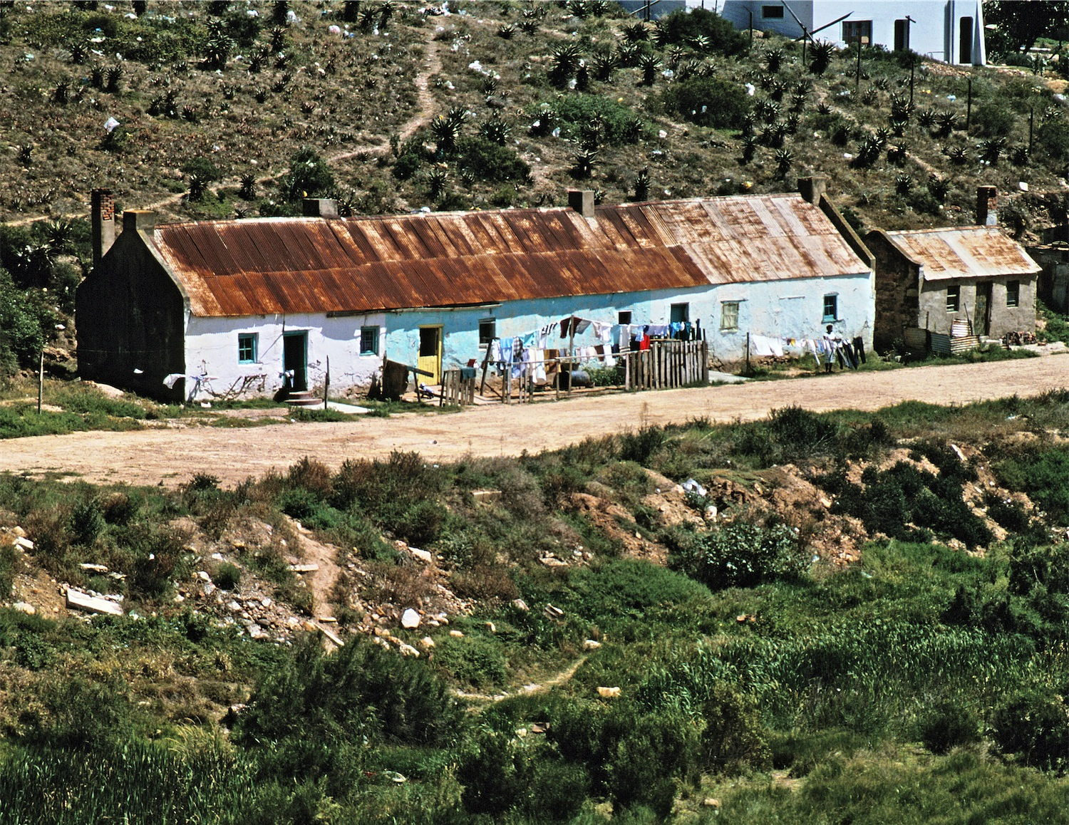 This media shows a South African Protected Site with SAHRA file reference 9/2/073/0020.